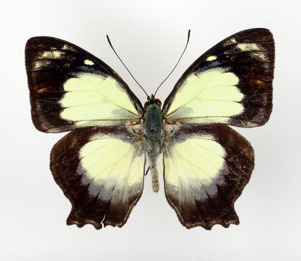 Male Mynes woodfordi shannoni Tennent 2001, collected in Mailaita, Solomon Islands in 1997 (upper side)